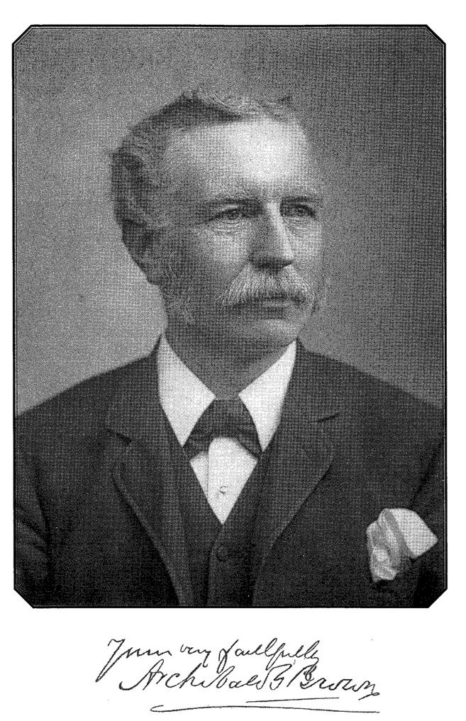 photograph of Archibald G. Brown (1844-1922), Baptist clergyman, London.